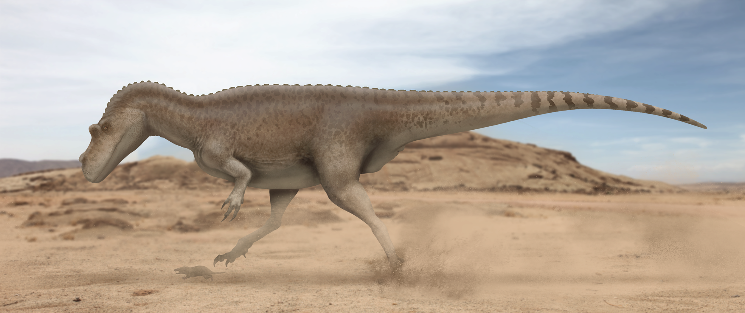 Restoration of Genyodectes serus chasing an early mammal.